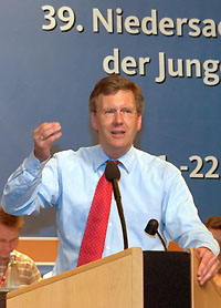 Christian Wulff (born June 19, 1959 in Osnabrueck) is a German politician (Christian Democratic Union of Germany) and Premier of Lower Saxony.